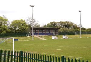 Image of Bryntirion Park.